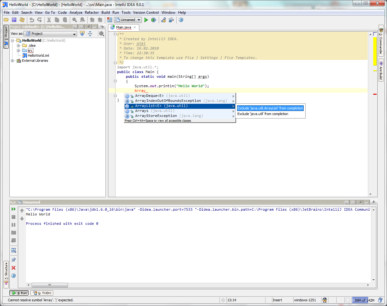 IntelliJ IDEA 9.0.1 Community Edition screenshot